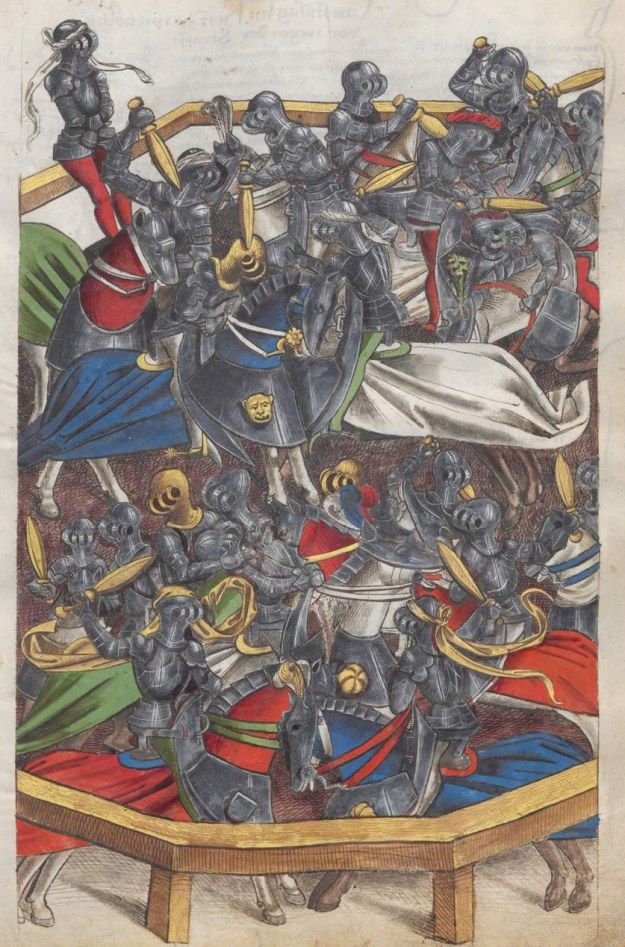 Piston Tournament. Scene of the roll of arms of Conrad Grünenberg. Bavarian State Library (BSB), Munich, Germany. Cgm 145, ca. 1480.